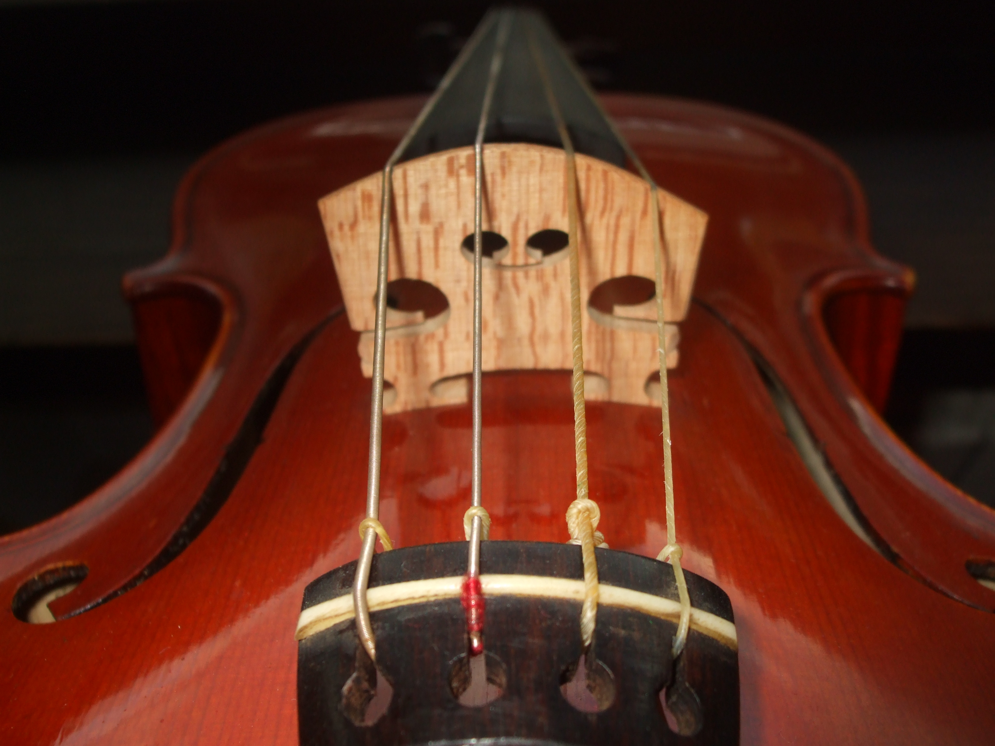 Detail of an alto (bridge and strings)